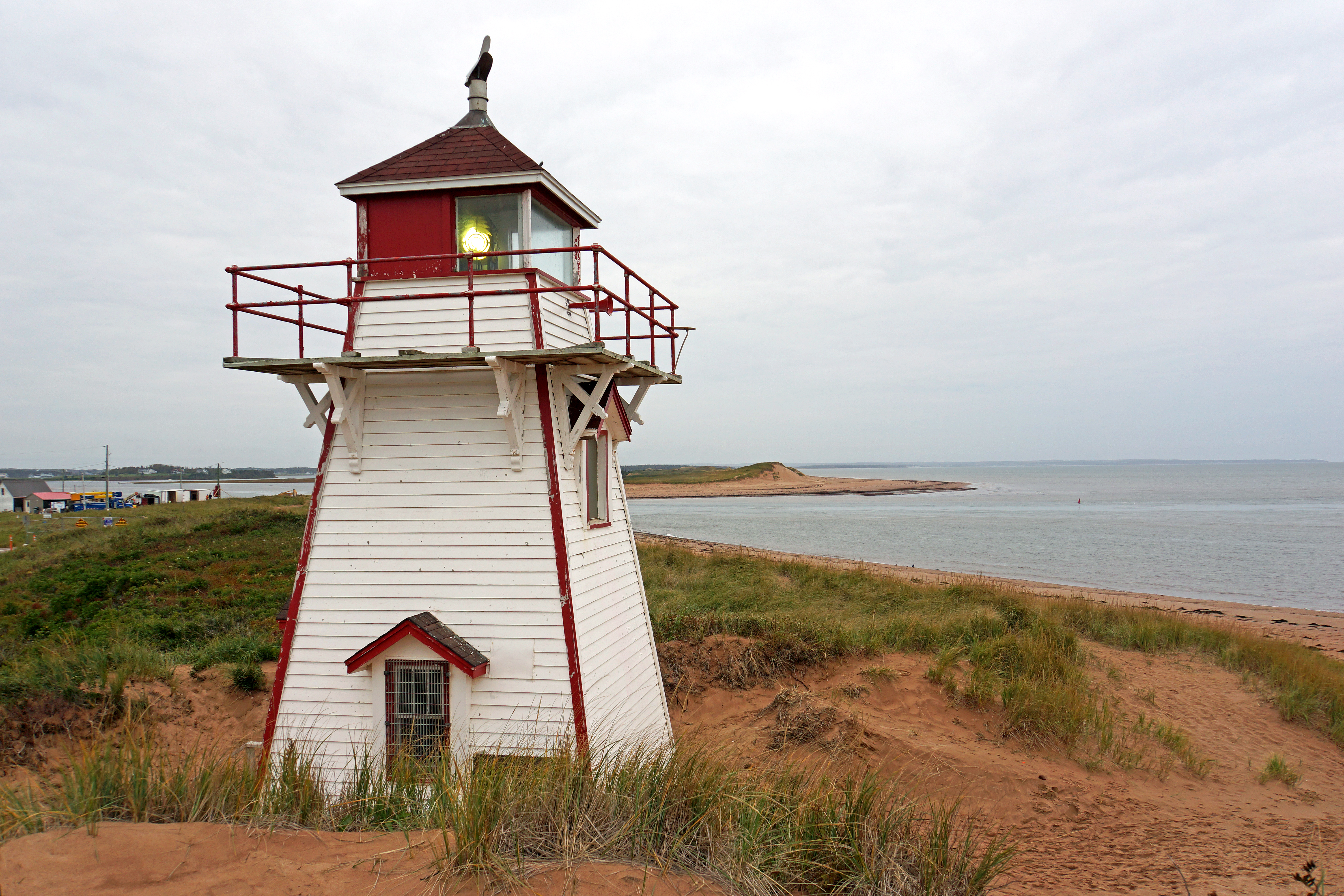 PLEASE, NO invitations or self promotions, THEY WILL BE DELETED. My photos are FREE to use, just give me credit and it would be nice if you let me know, thanks. This lighthouse is in the Prince Edward Island National Park. This is one of the smallest on the Island. It is a squared tapered tower, 8.2 m (26.8 ft) tall and was built in 1975. It has a 100 year old bull's eye Fresnel Lens which was formerly used at Dalhousie, New Brunswick. Light: flashing white Focal Height: 11 m (36 ft)